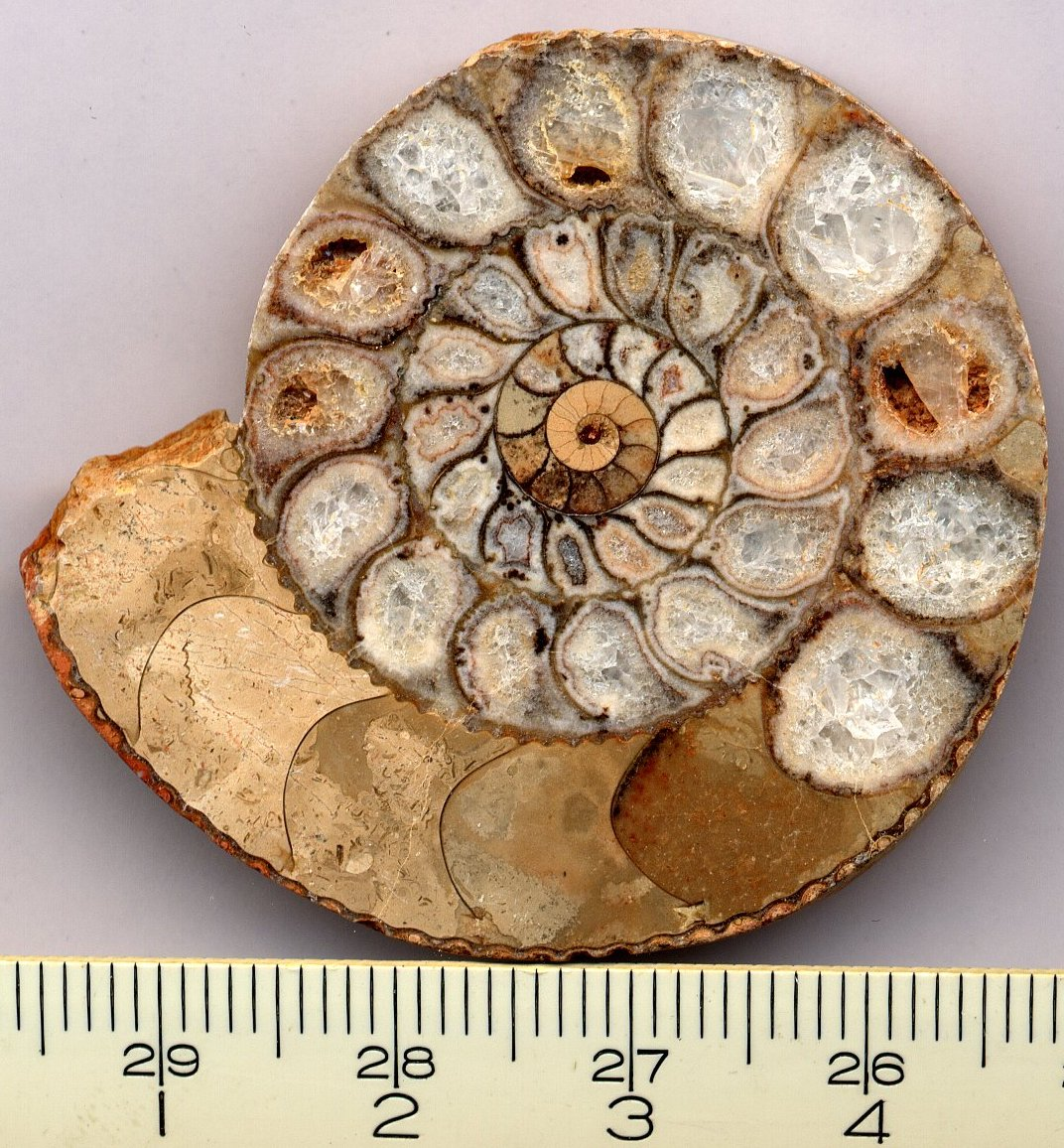 Ammonite